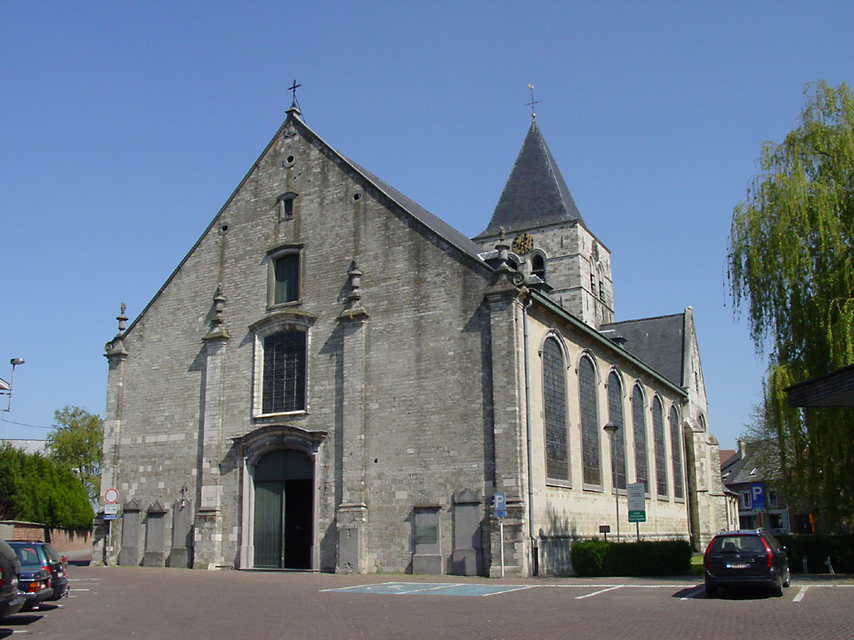 Church in the centre of Opwijk, Belgium